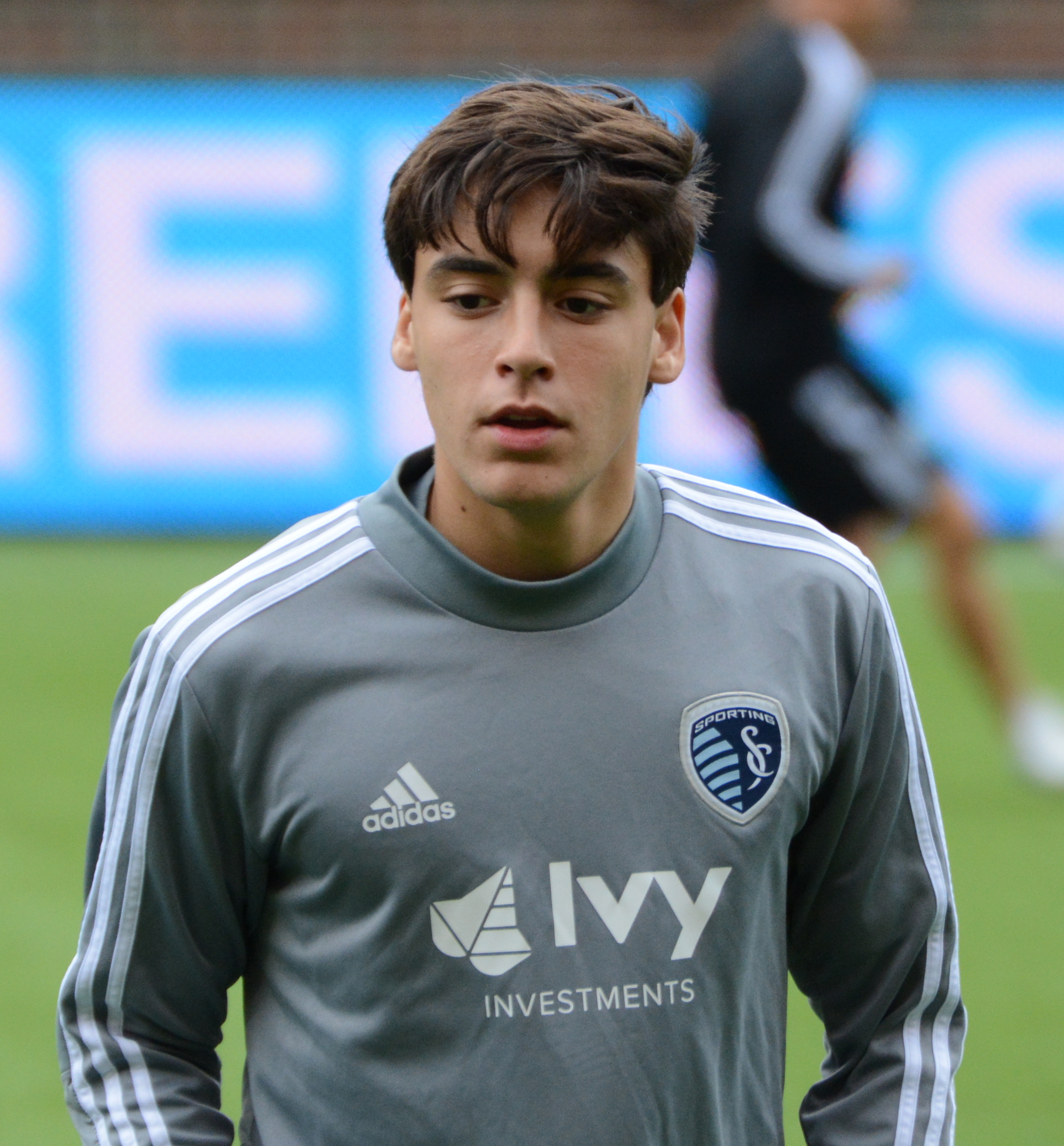 Taken during a Major League Soccer regular season match between FC Cincinnati and Sporting Kansas City at Nippert Stadium in Cincinnati, USA on April 7, 2019.